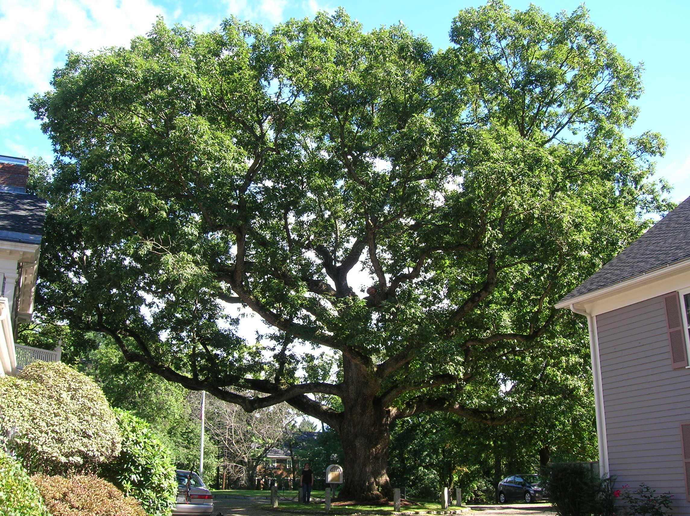 Photograph of the historic Mullikan white oak tree, located in Lexington, MA. The photo was taken in September 2012.